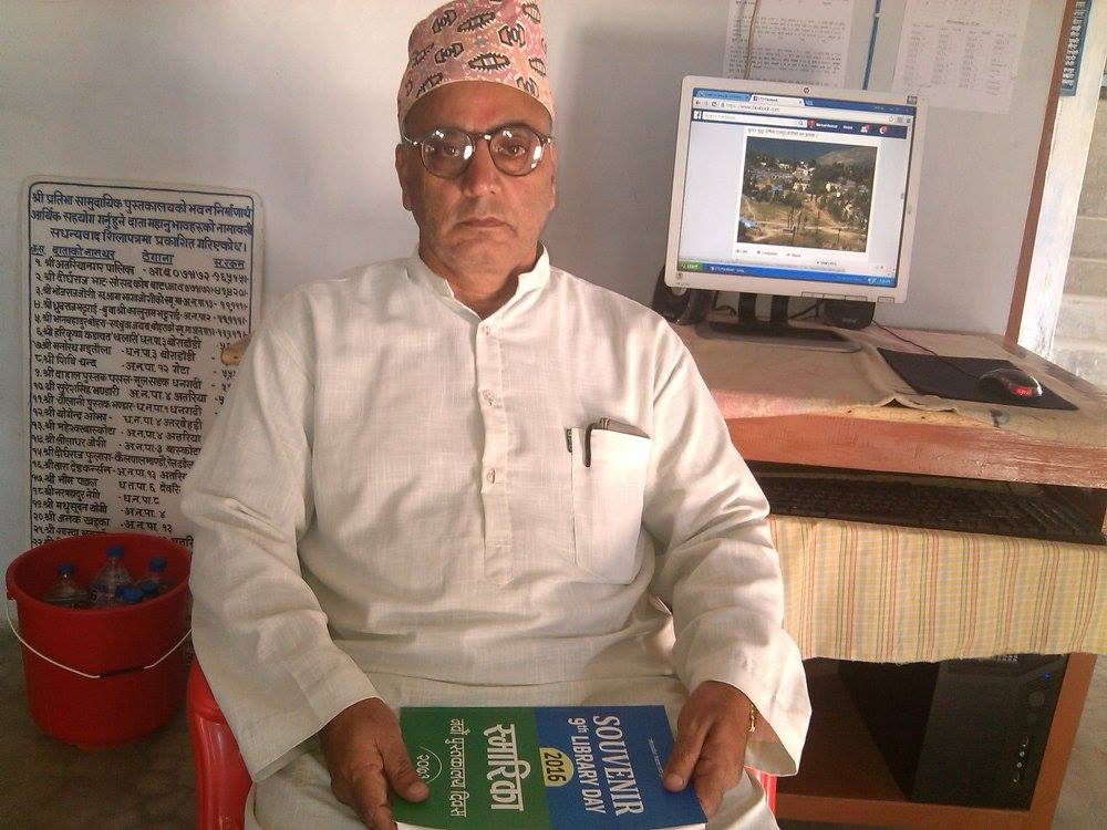 अध्ययन गर्दै निर्मलकुमार भण्डारी